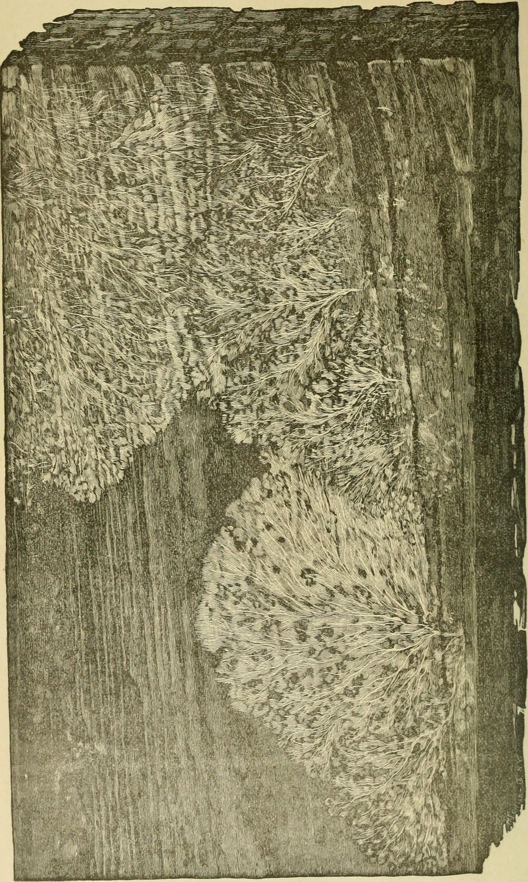 Title: Annual report of the State Botanist of the State of New York Identifier: annualreportofst1887peck Year: 1888 (1880s) Authors: Peck, Charles H. (Charles Horton), 1833-1917; New York (State). State Botanist Subjects: Plants; Fungi Publisher: Albany : Troy Press Text Appearing Before Image: ' Text Appearing After Image: '